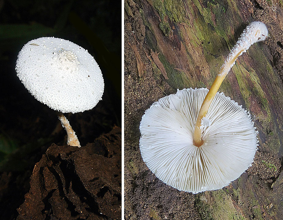 A species known mainly from Europe, here in Amacayacu Park of the Colombian Amazon. In context at